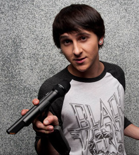 Mitchel Musso on Walmart Soundcheck, April 2011.